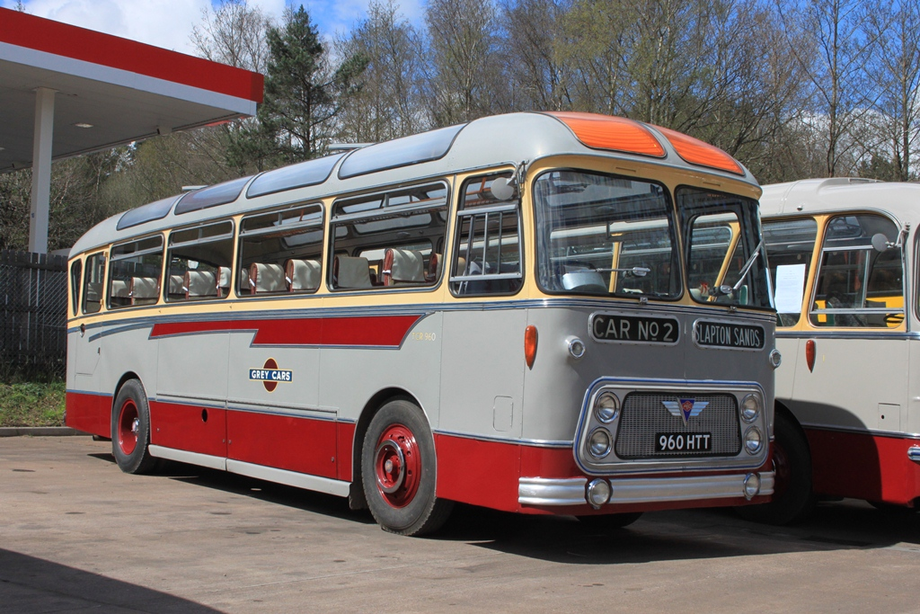 Preserved Grey cars coach 960 HTT, a 1962 AEC Reliance with Wilowbrook Viscount 41-seat body at the Heathfield depot of Grey Cars operation during an open day to celebrate the 100th anniversary of the Grey Cars name in south Devon.